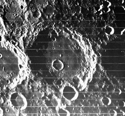 LOV-006-H1 Stefan is in the center of this Lunar Orbiter view uncorrected for foreshortening. 88-km Wegener is on its left and 75-km Rynin (in shadow) on its right. The 26-km crater on the south rim of Stefan is Stefan L.